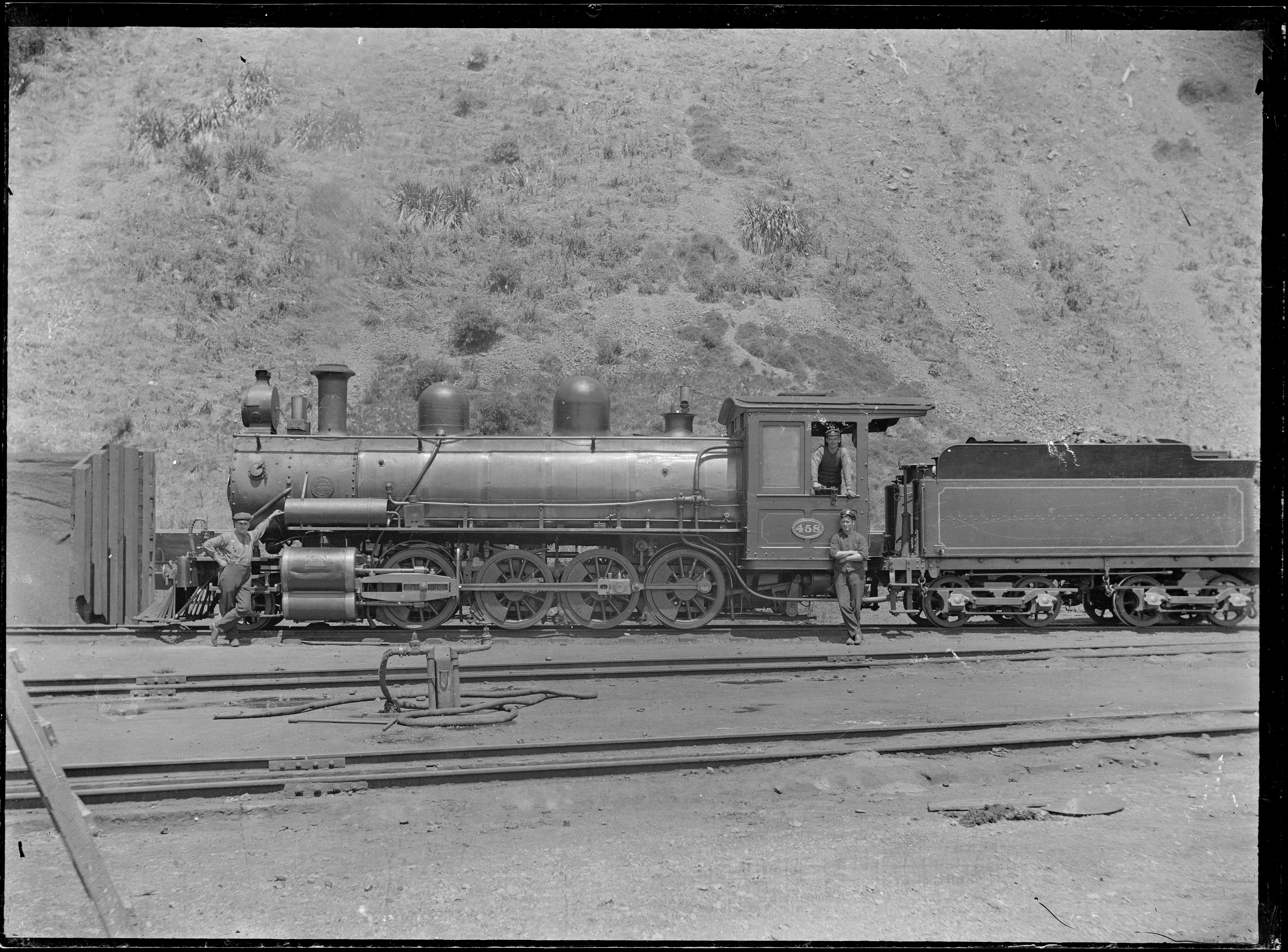 Oc Class steam locomotive NZR 458, 2-8-0 type, with three men. The man on the left is not identified, but B Hughes is standing in the driver's cab, and P Purcell is standing on the ground beside the cab. Photograph taken by Albert Percy Godber. Names from the original print in Pa1-q-101 (Godber Album vol 108, p 39)